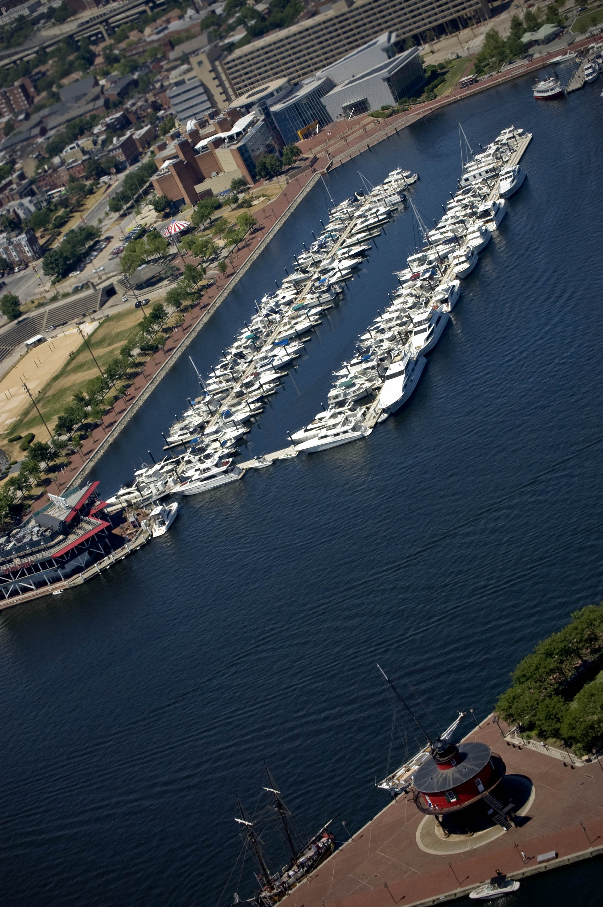 View of BMC Inner Harbor Marine Center and Lighthouse in Inner Harbor, Baltimore, Maryland